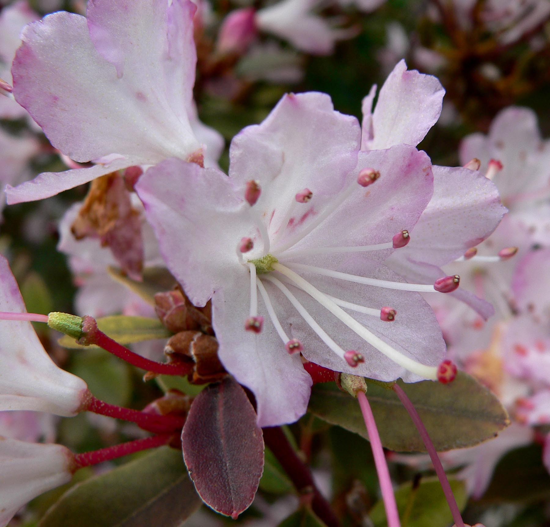 Photo of Rhododendron racemosum at the University of California Botanical Garden